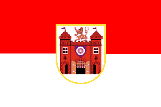 Flag of the Czech town of Liberec